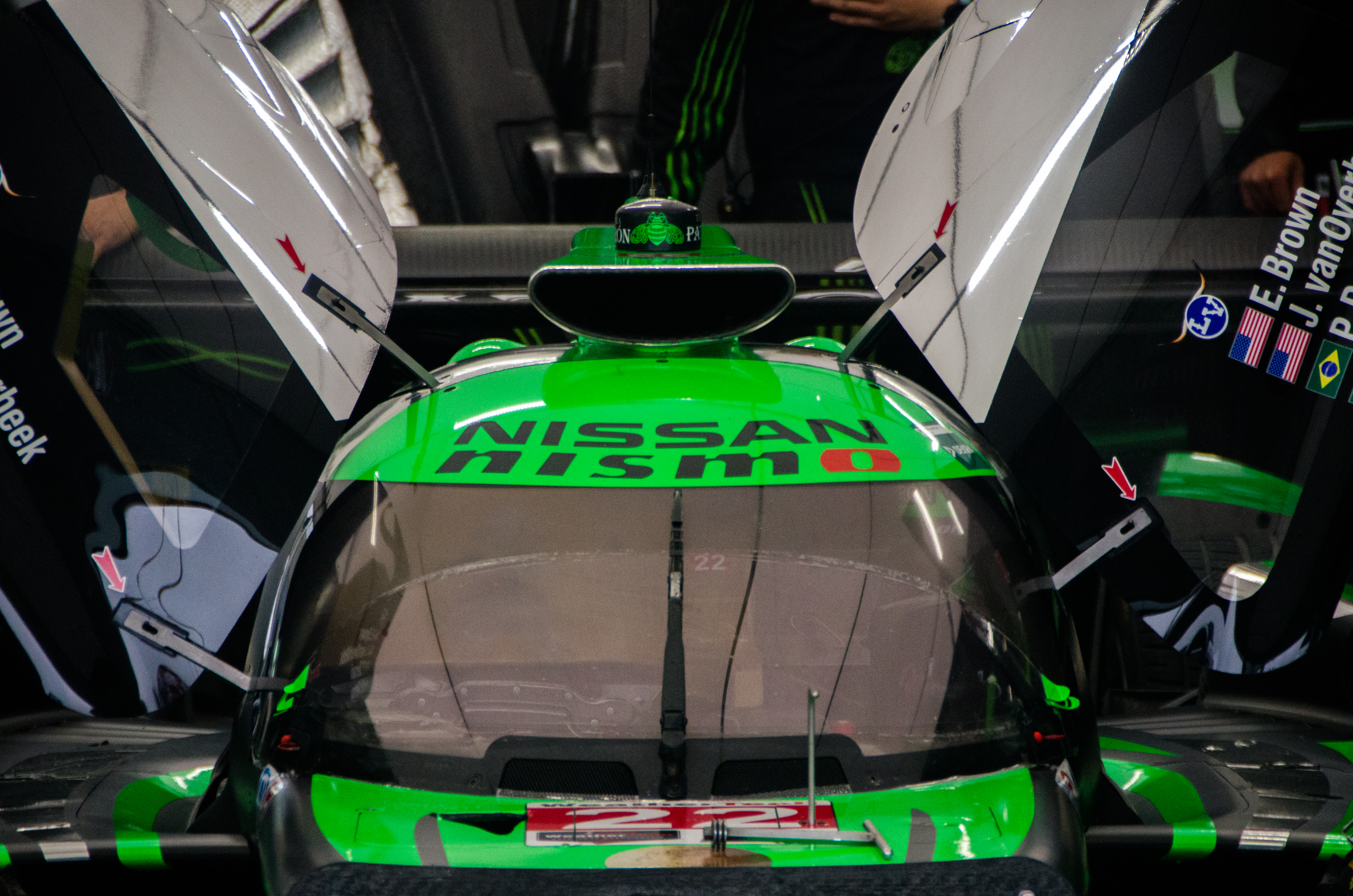 Picture of the cockpit of the Nissan Onroak DPi at Petit Le Mans 2017